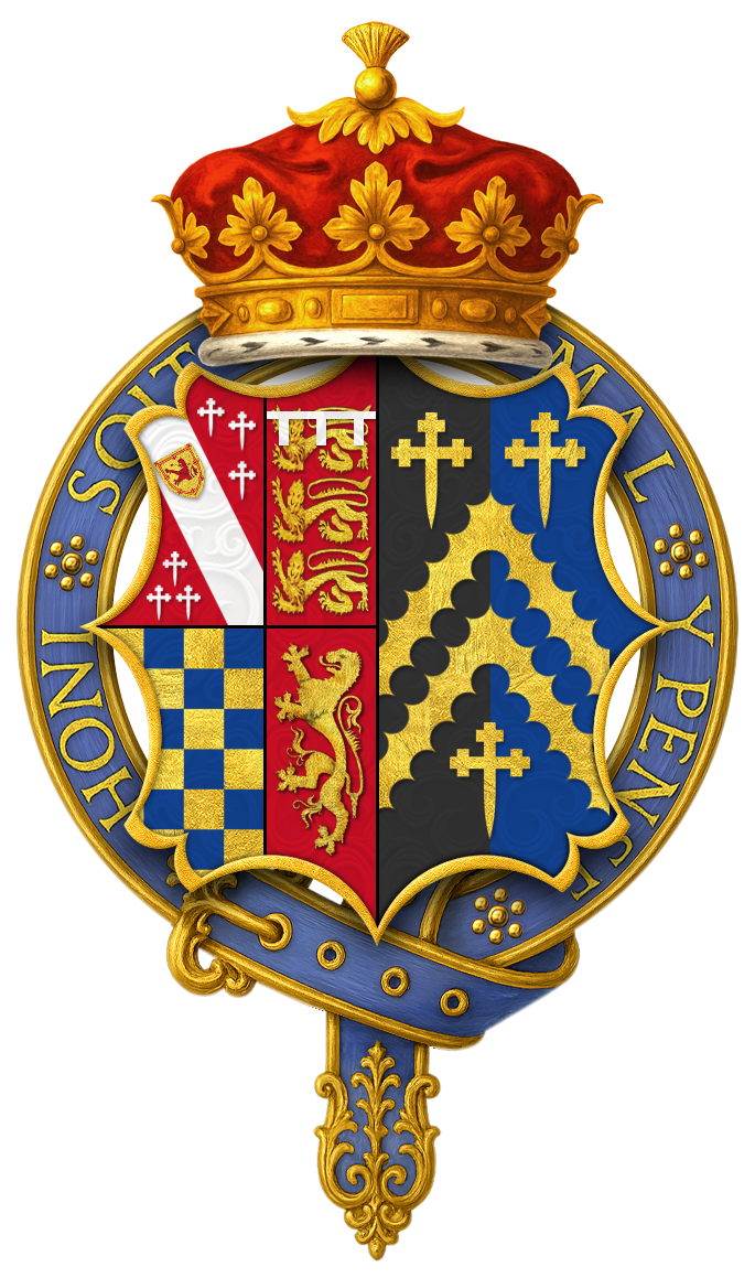 Garter-encircled arms (Norfolk impaling Strutt) of Lavinia Fitzalan-Howard, Duchess of Norfolk, LG, as displayed on her Order of the Garter stall plate in St. George's Chapel, Windsor Castle.